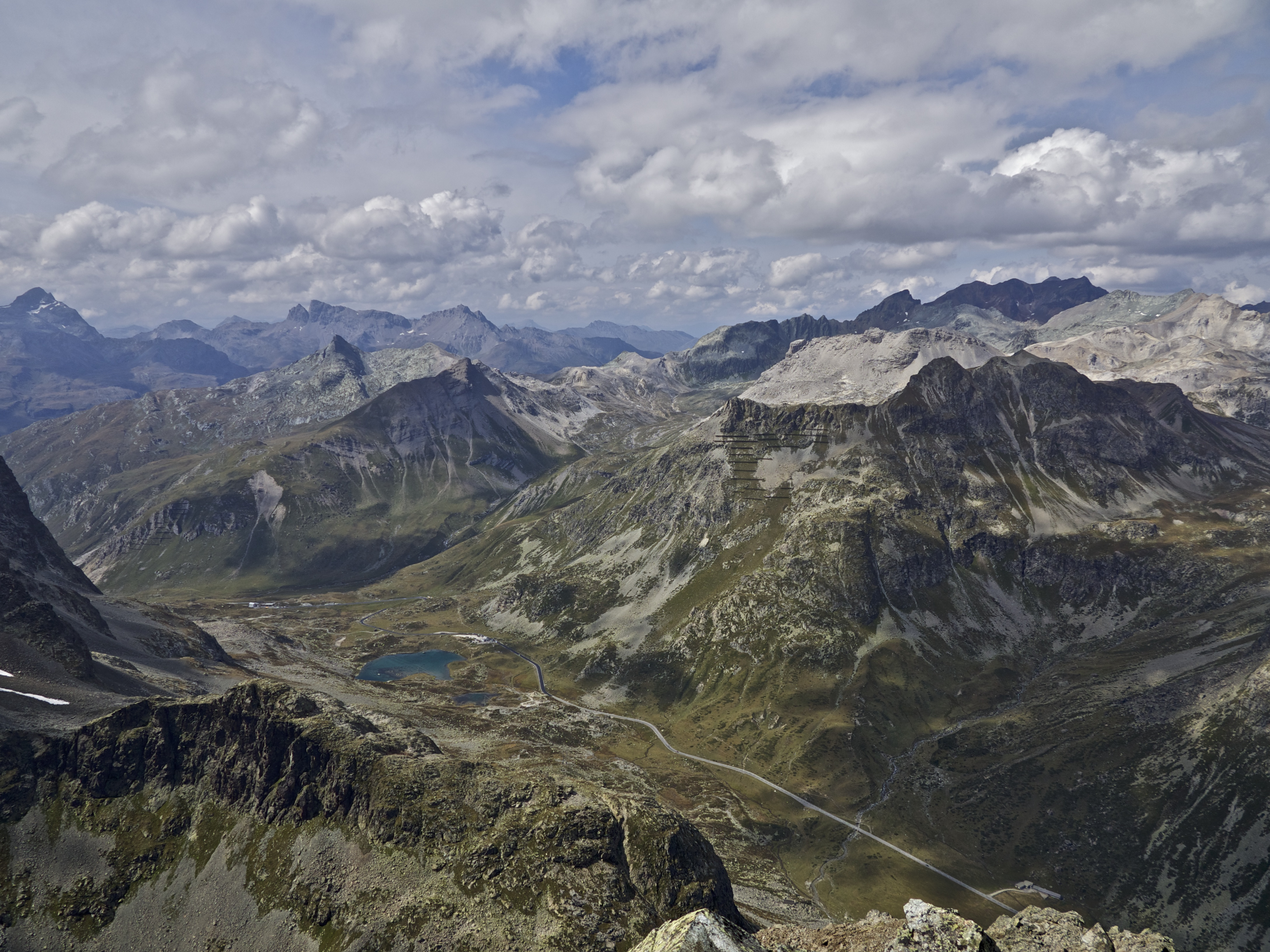 Julier Pass as seen from Piz Polaschin, Bivio, Silvaplana, Sils i.E., Grison, Switzerland